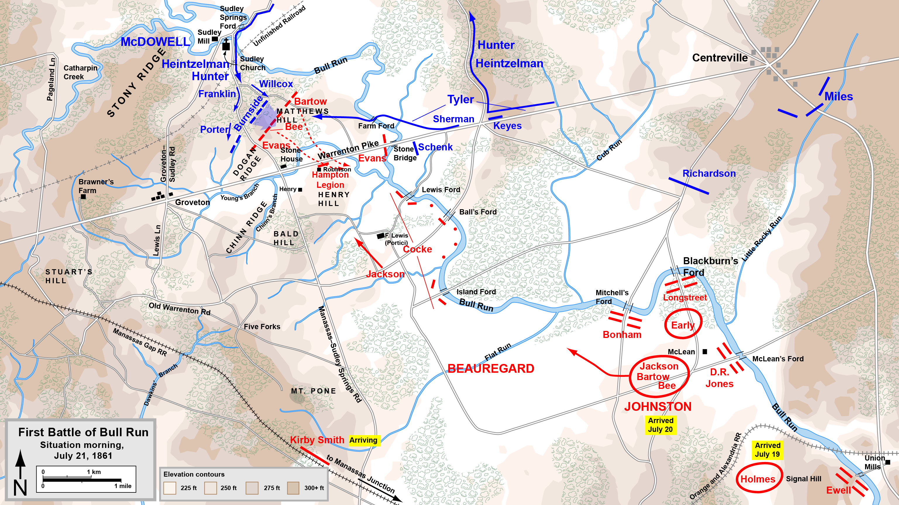 Partial map of the First Battle of Bull Run of the American Civil War. Drawn by Hal Jespersen in Adobe Illustrator CS5. Graphic source file is available at